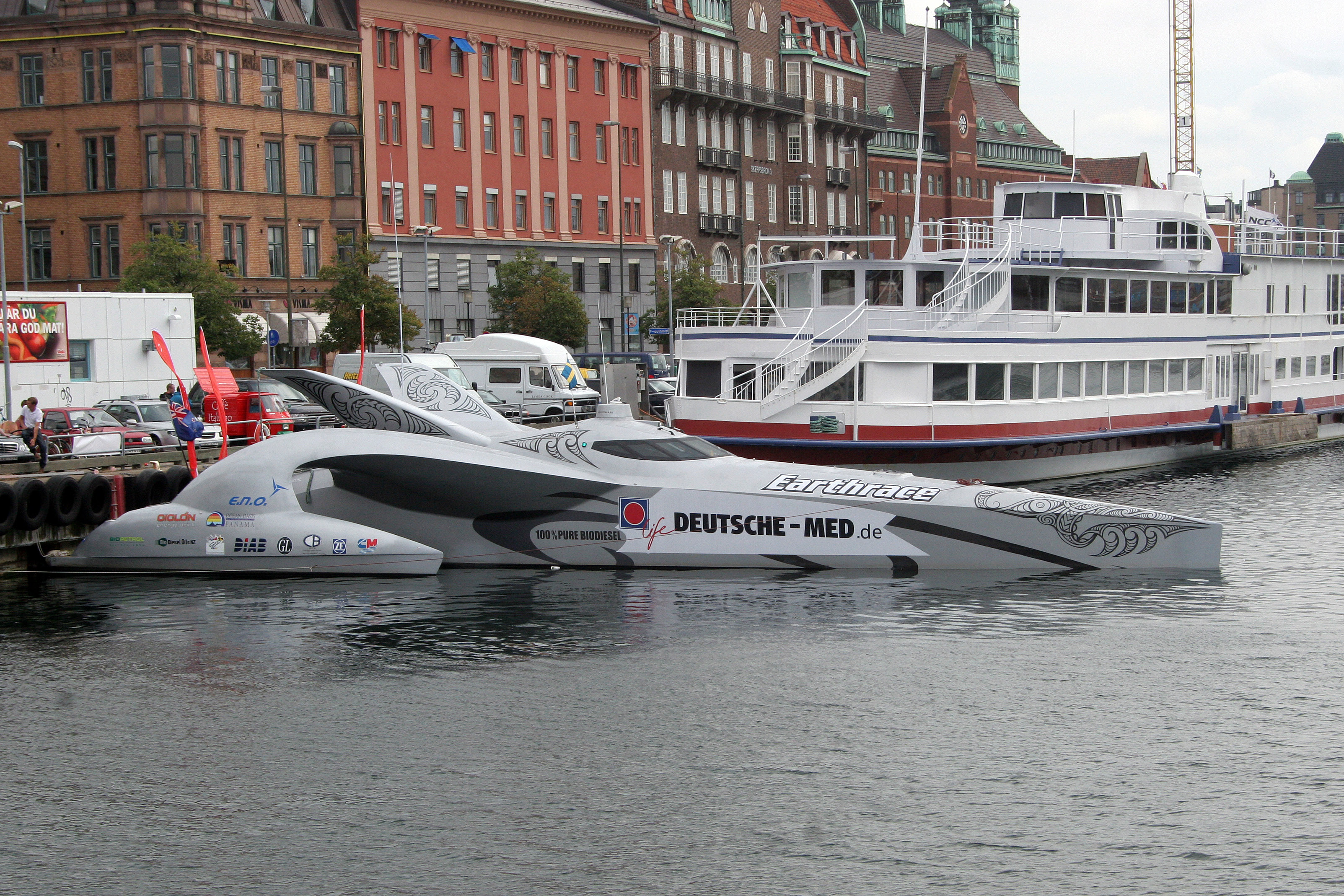 Speedboat Earthrace at a dock in Malmö, Sweden.